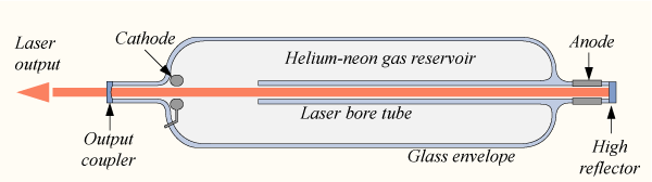 Diagram of a helium-neon laser